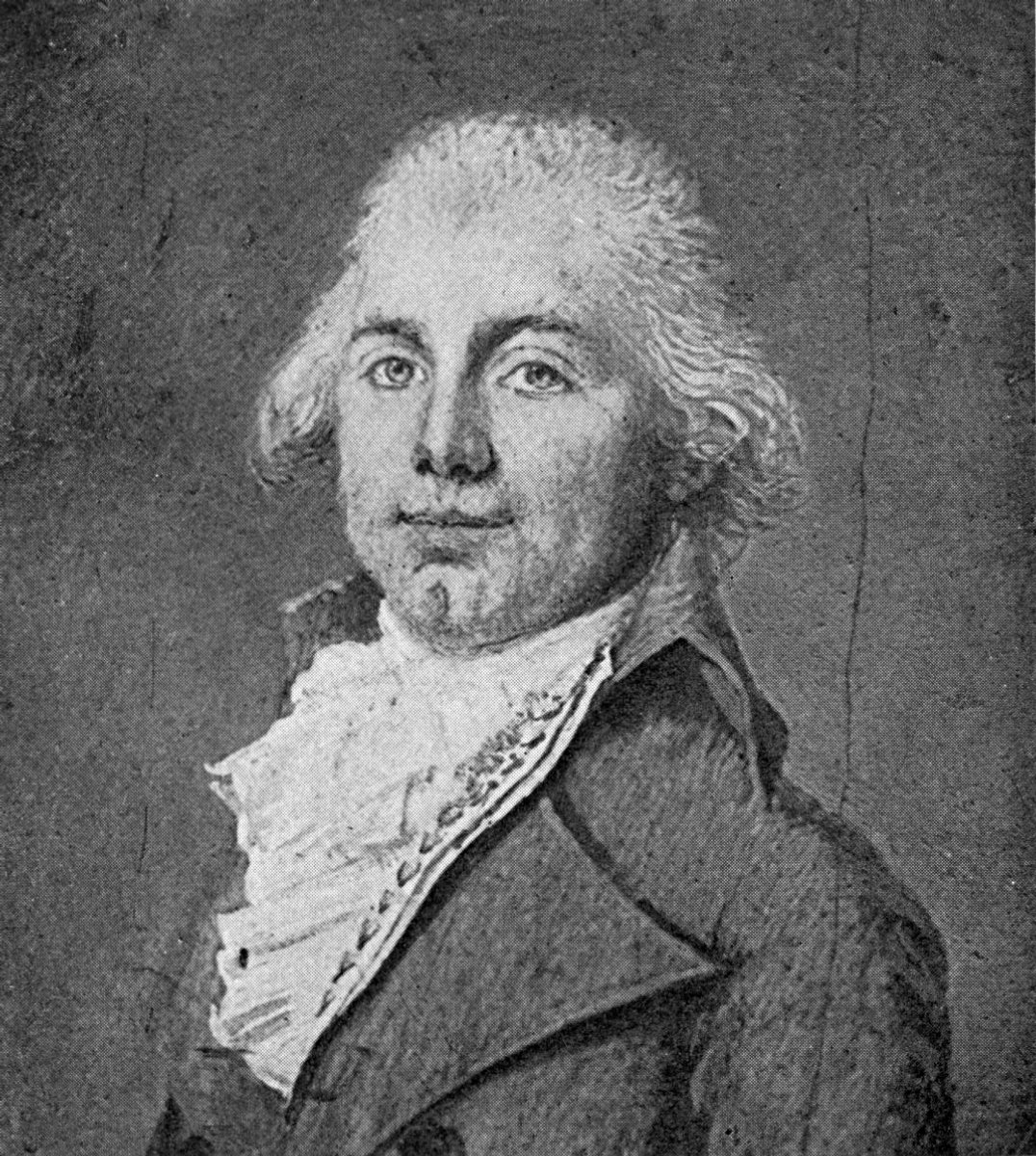 Miniature of James Monroe, painted in Paris in 1794, by Louis Semé.